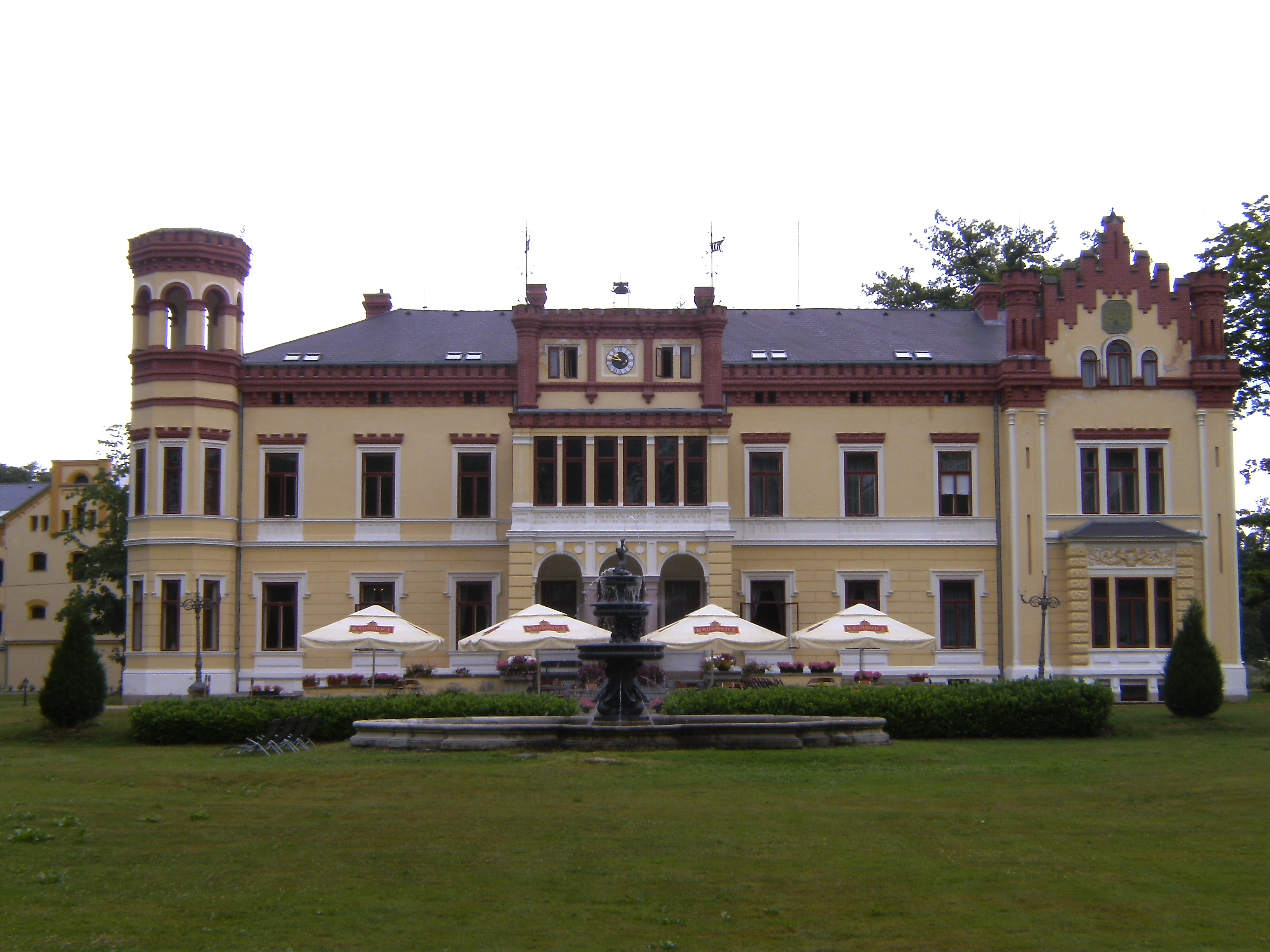 Mostov Castle